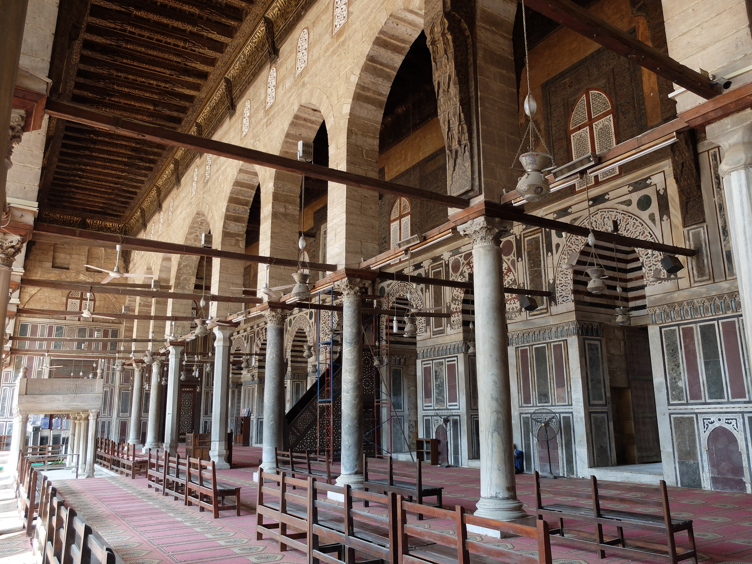 Overall view of the prayer hall and qibla wall of the Mosque of Sultan al-Mu'ayyad.